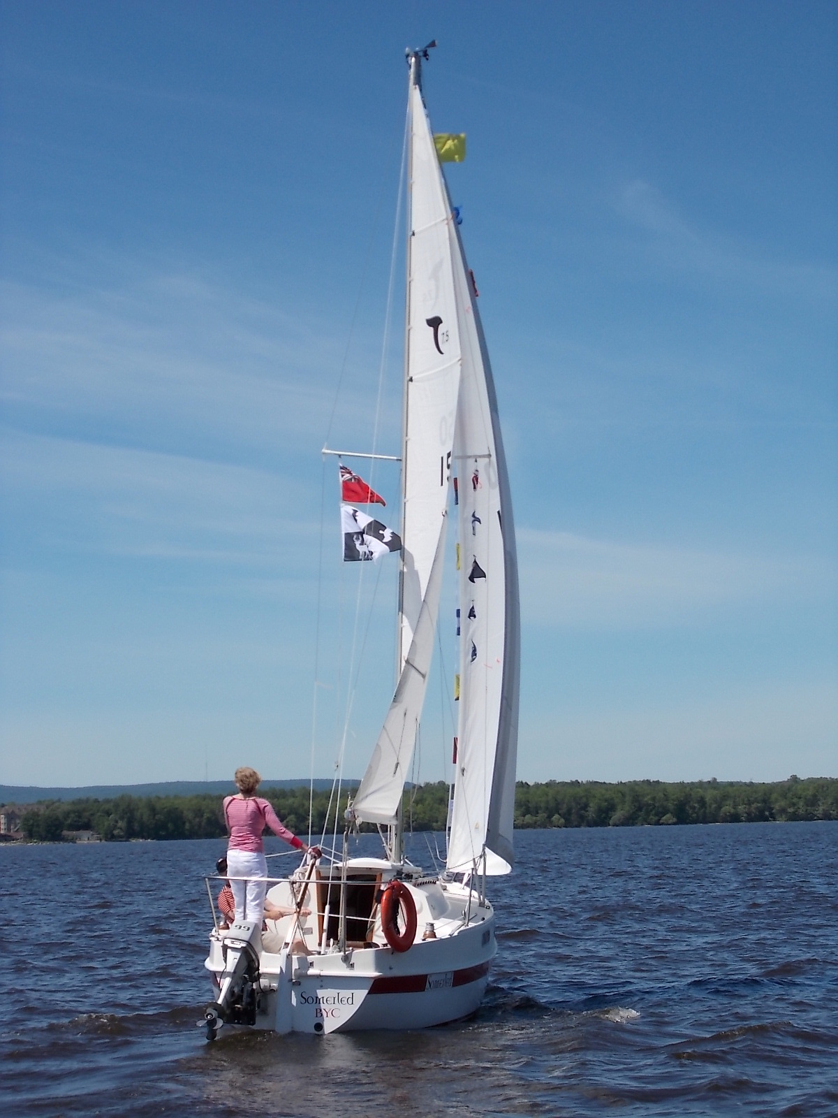 Tanzer 7.5 sailboat on Lac Deschênes, Ottawa River, Ottawa, Ontario, Canada.